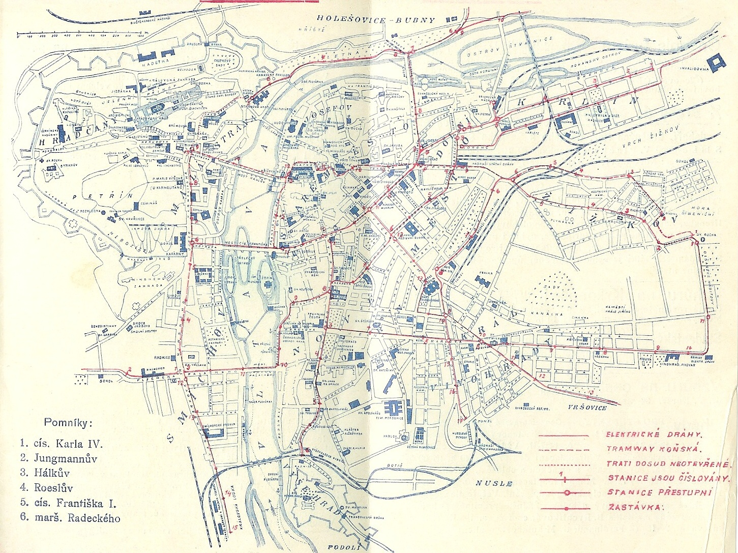 Plan of tramway lines in Prague at the beginning of 20th century (1901)